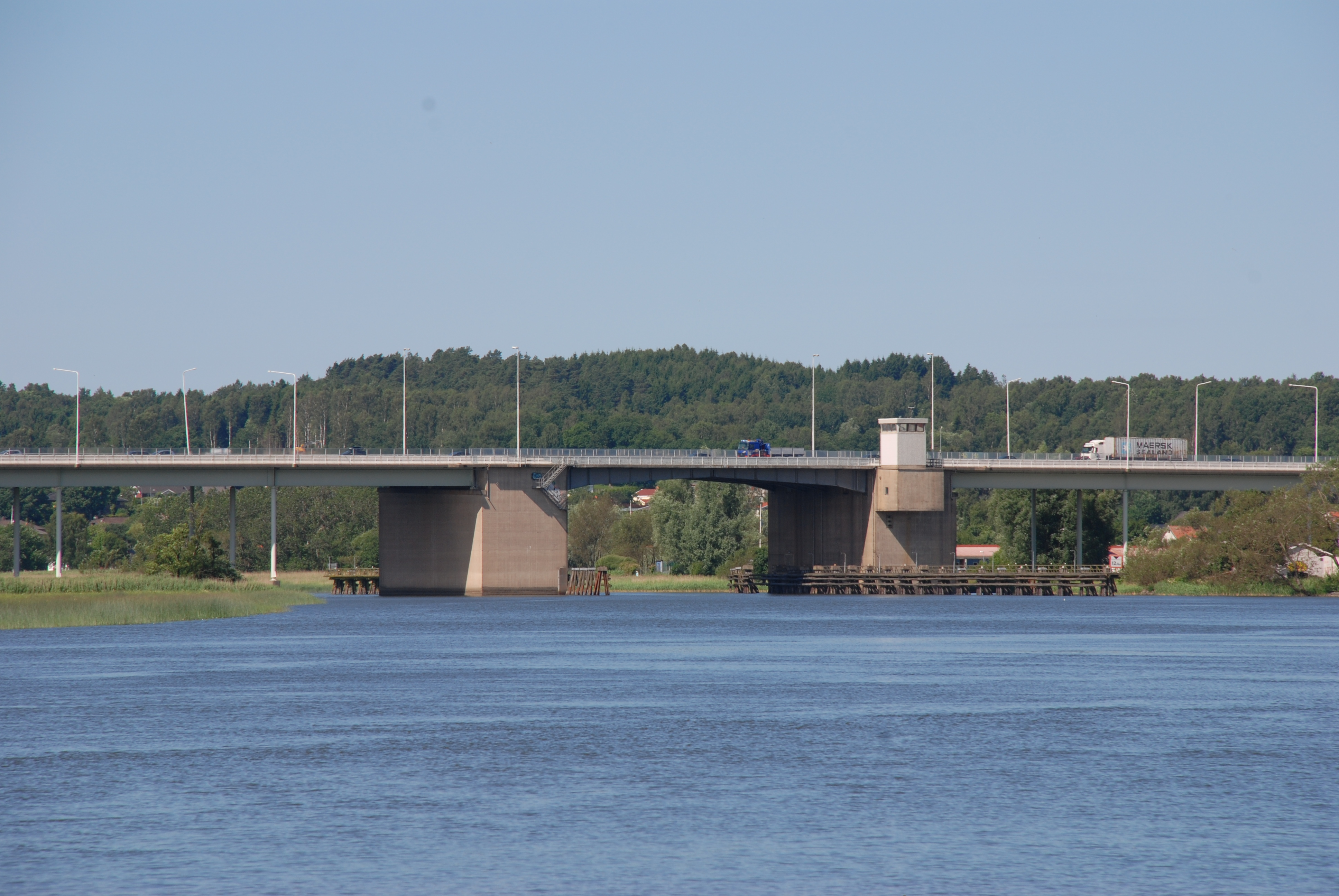 The highway bridge (E6) Nordreälvsbron across the river Norde älv in Kungälv, Sweden.